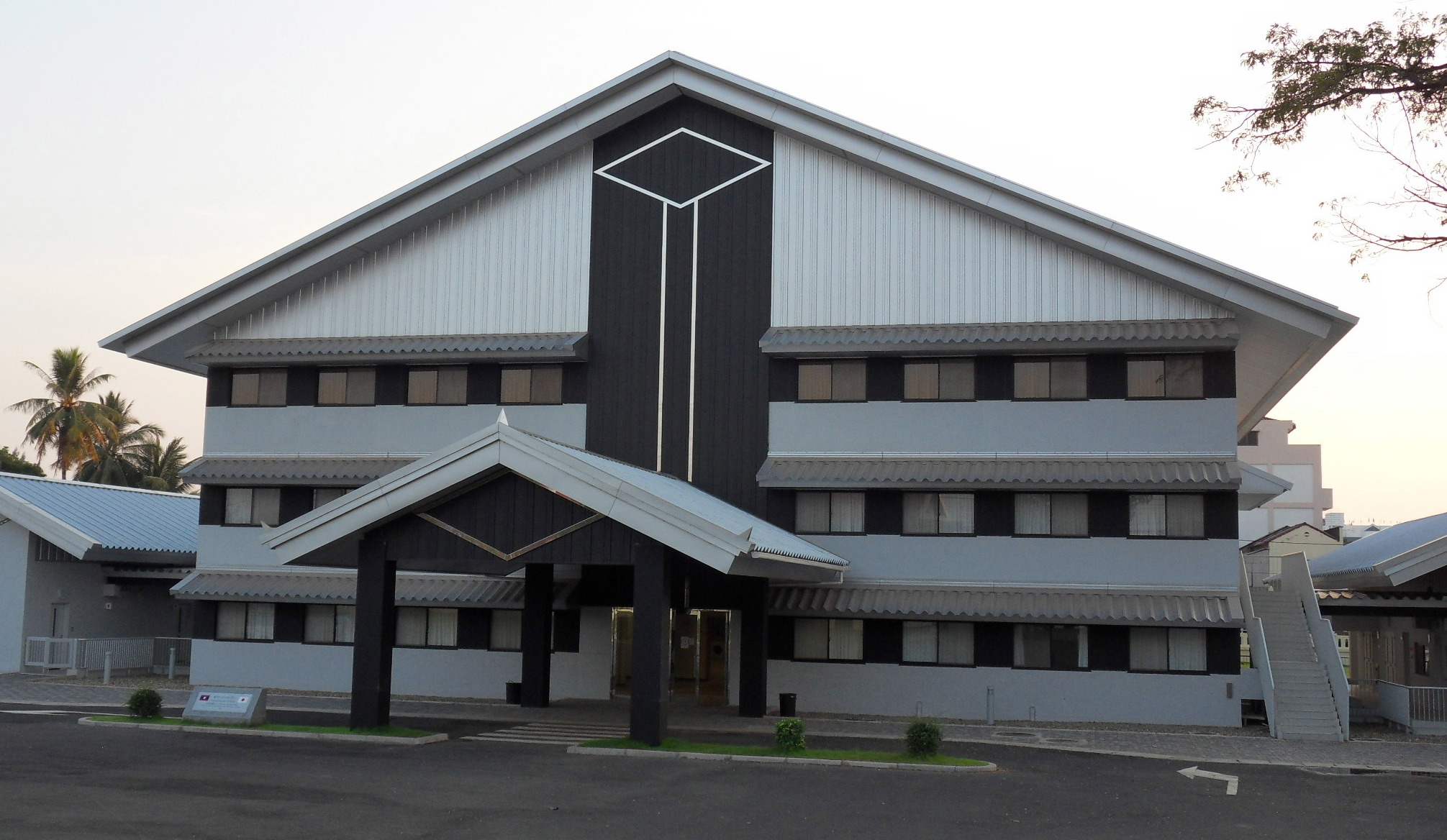 Budo Center, Vientiane, Laos